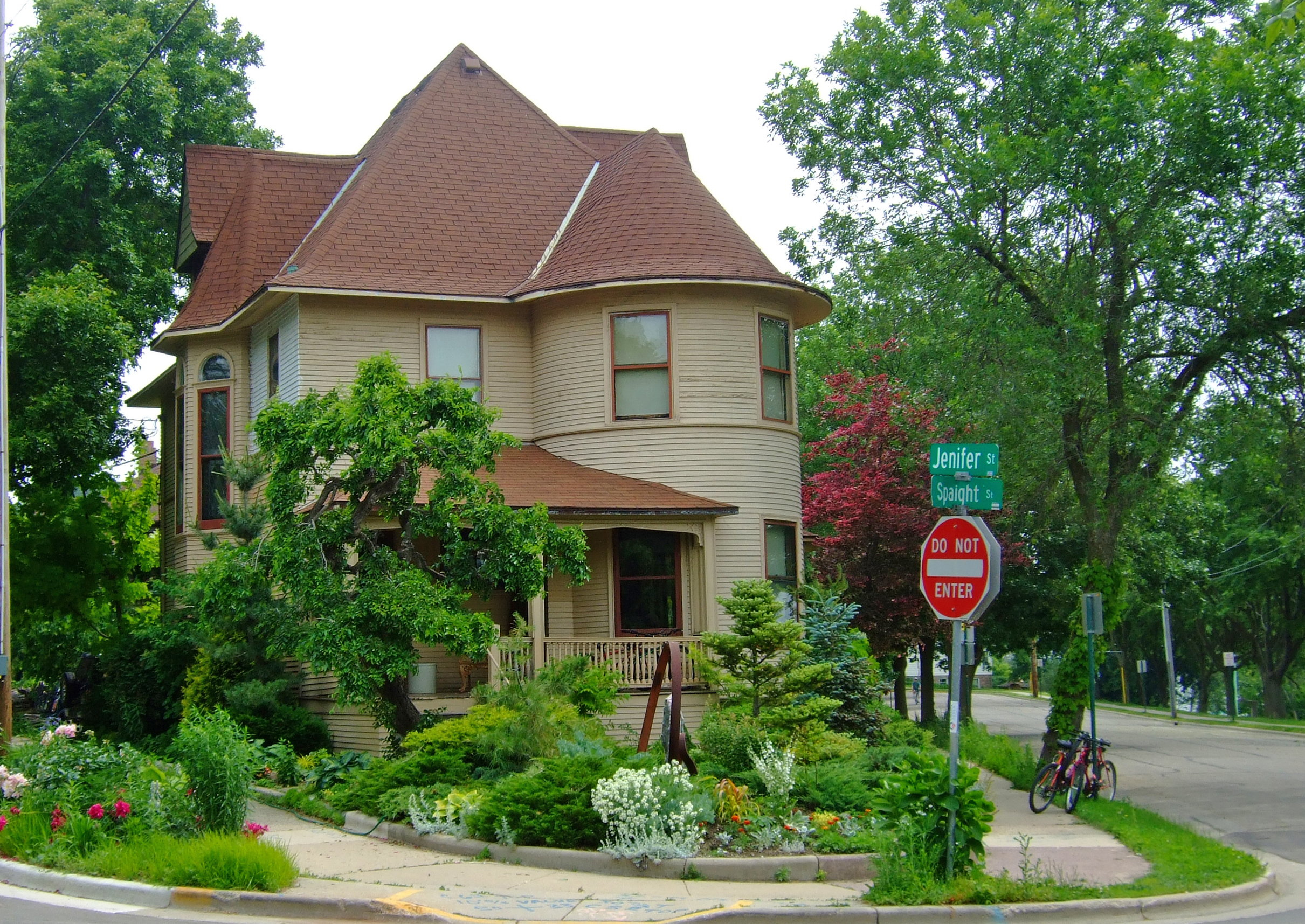 Harlow S. and Isabel Ott House (1897) at the intersection of Jenifer and Spaight Streets in Madison, Wisconsin, designed by Claude and Starck.